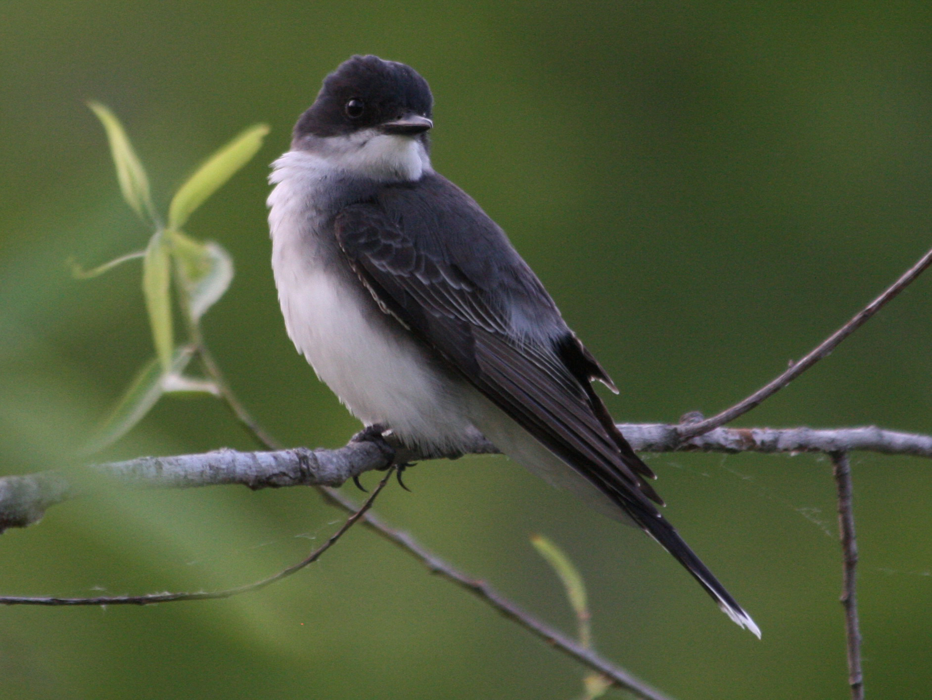 Eastern Kingbird (Tyrannus tyrannus) at Sunset Beach, North Carolina